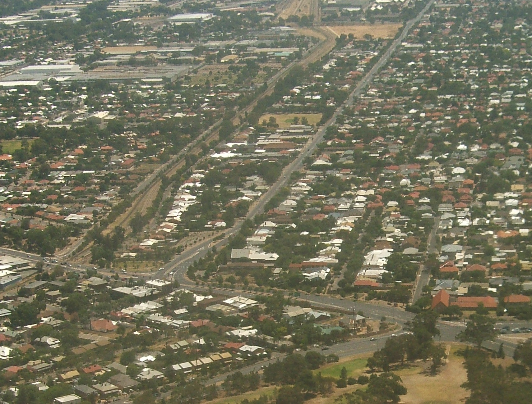 Aerial view of the said location in Adelaide